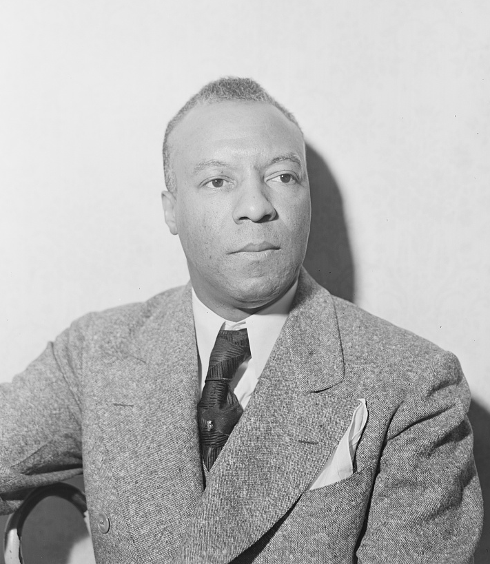 A. PHILIP RANDOLPH, head-and-shoulders, wearing jacket and tie. Silver gelatin photograph.